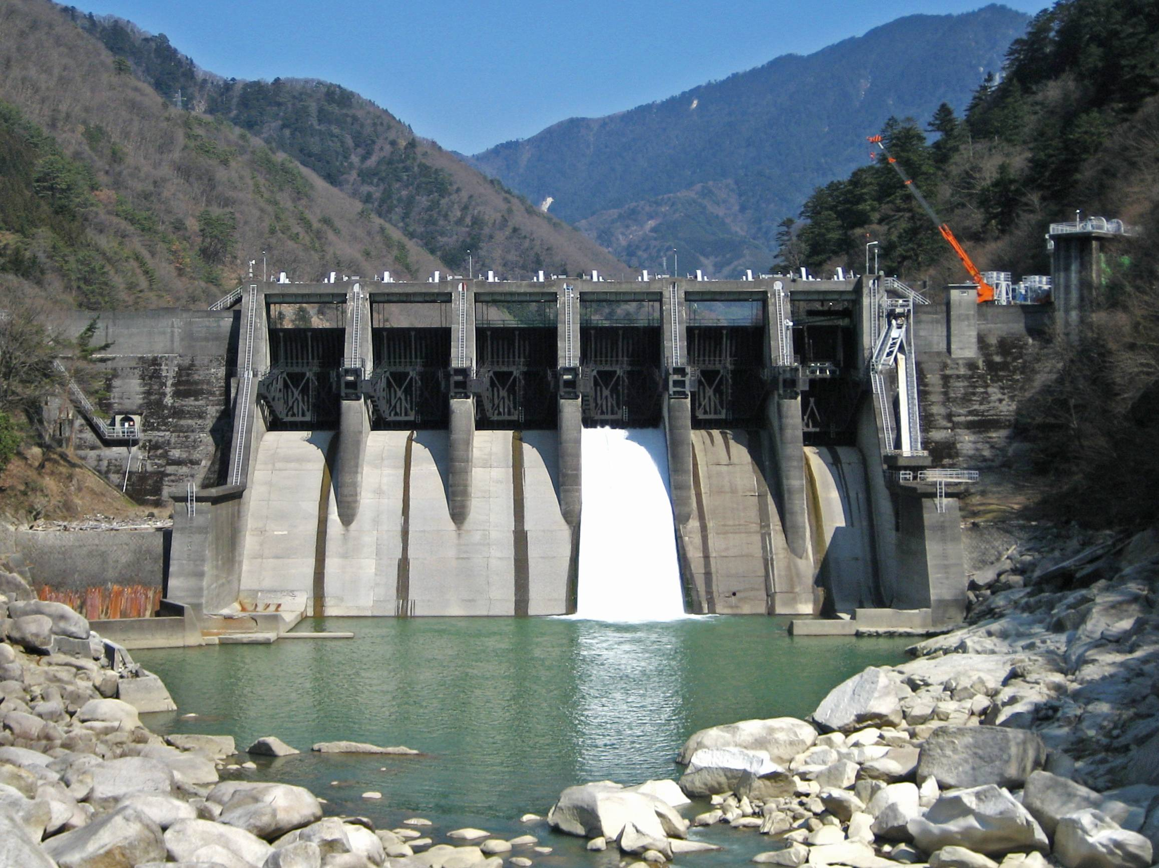 Yamaguchi Dam.